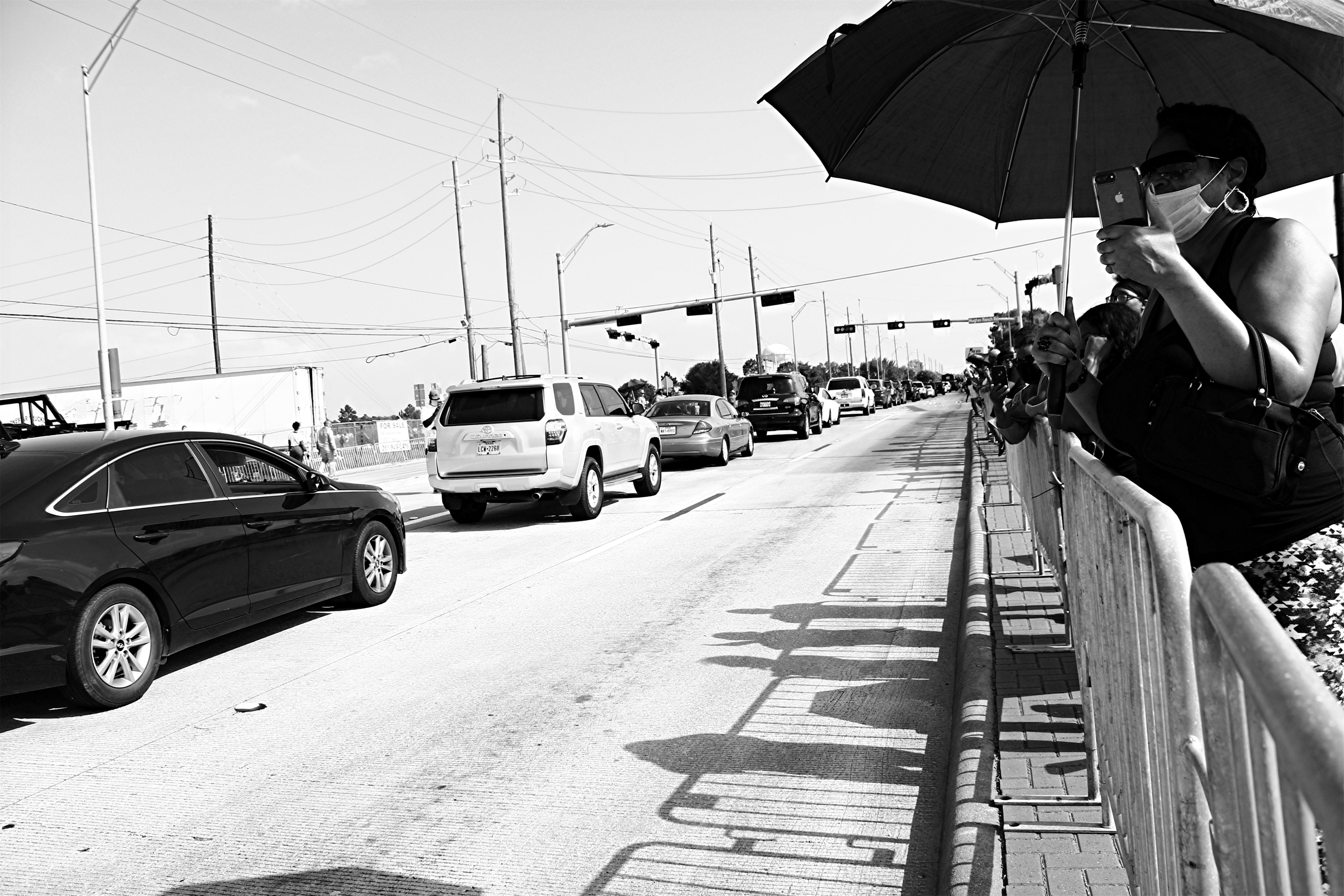 The Last Mile Of The Way.. Funeral procession with a horse-drawn carriage of George Floyd’s body down Cullen Blvd to the Houston Memorial Gardens Cemetery. Pearland, TX 6-9-20